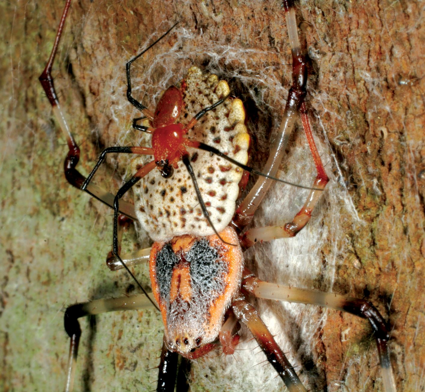 Moderate SSD – male resting on female (Herennia multipuncta).